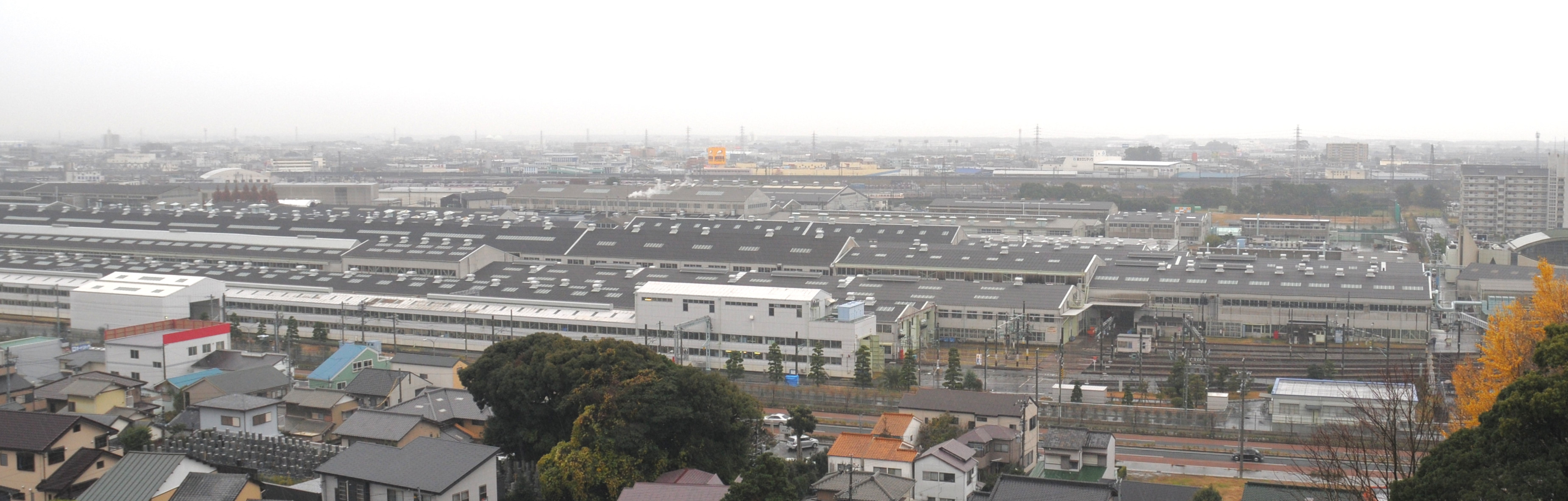 JR Central Hamamatsu Workshop